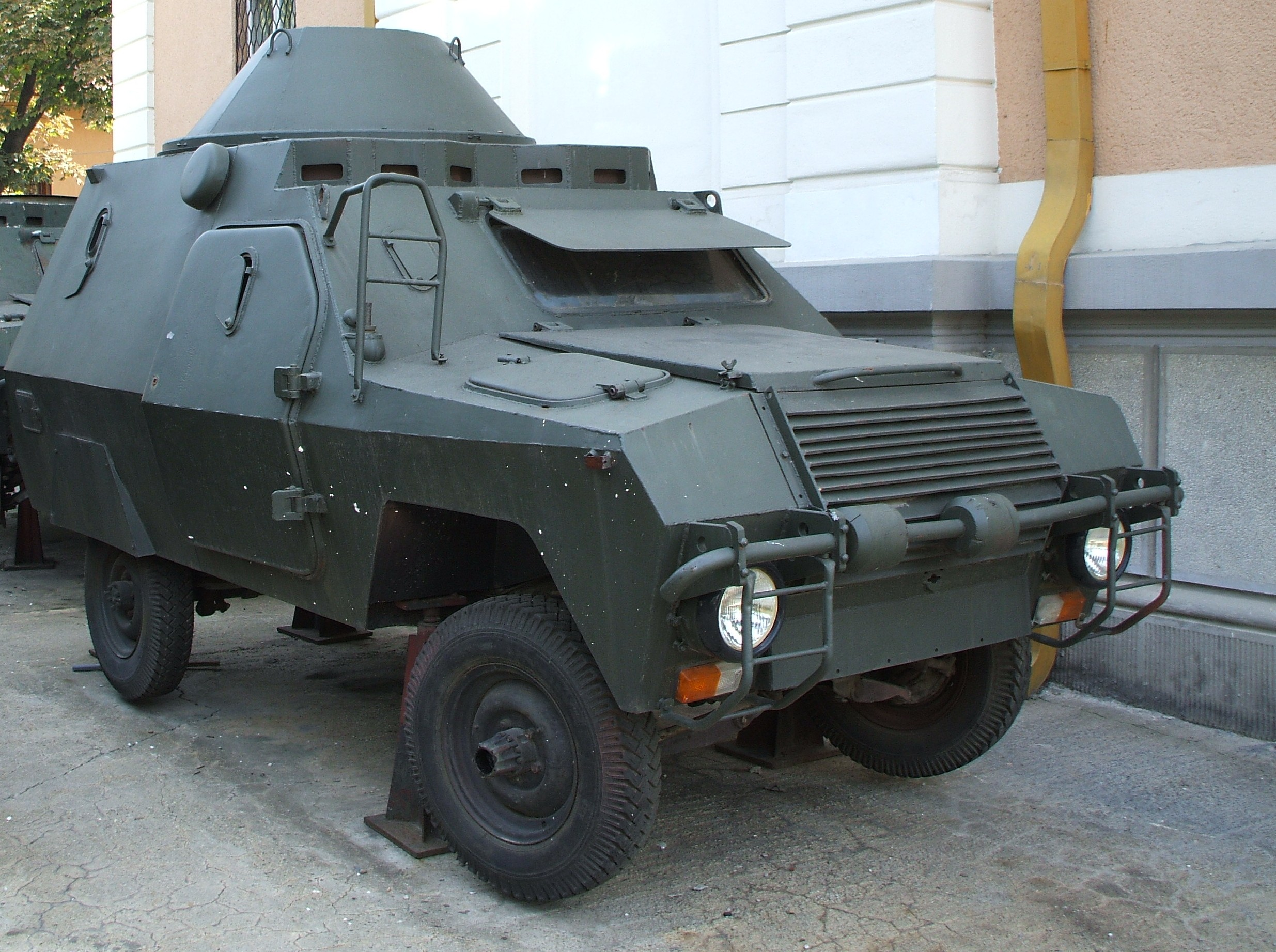 ABI 100 armoured car on display at King Ferdinand National Military Museum, Bucharest. Built at S.C Uzina Automecanica Moreni S.A., it was based on the ARO 240.